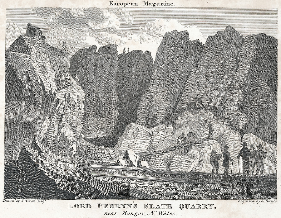 A view of the quarry showing workmen carrying out various tasks on different levels.